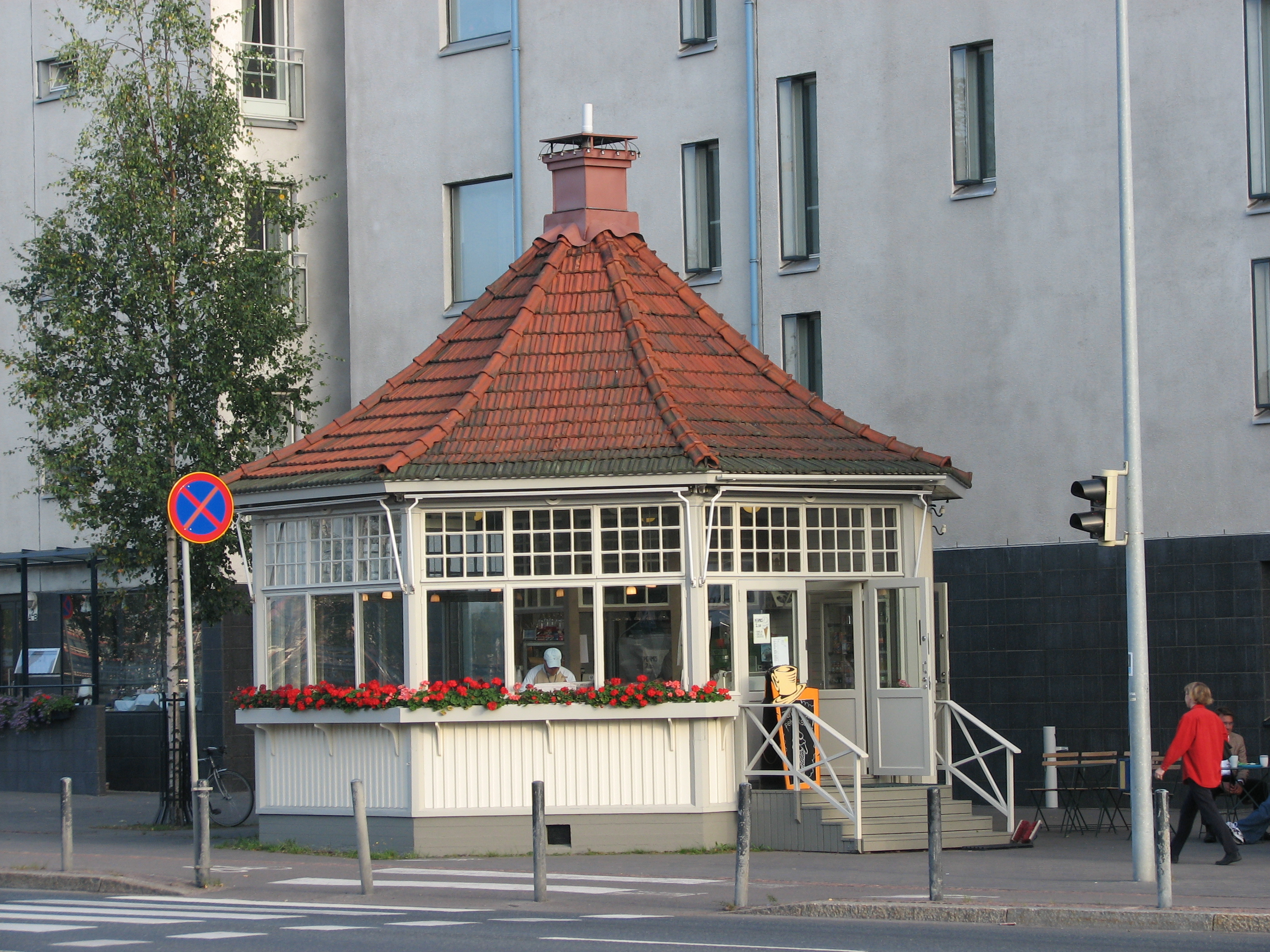 The Mutterikahvila ("nut café") in Lauttasaari, Helsinki. So called because of its octagonal shape.